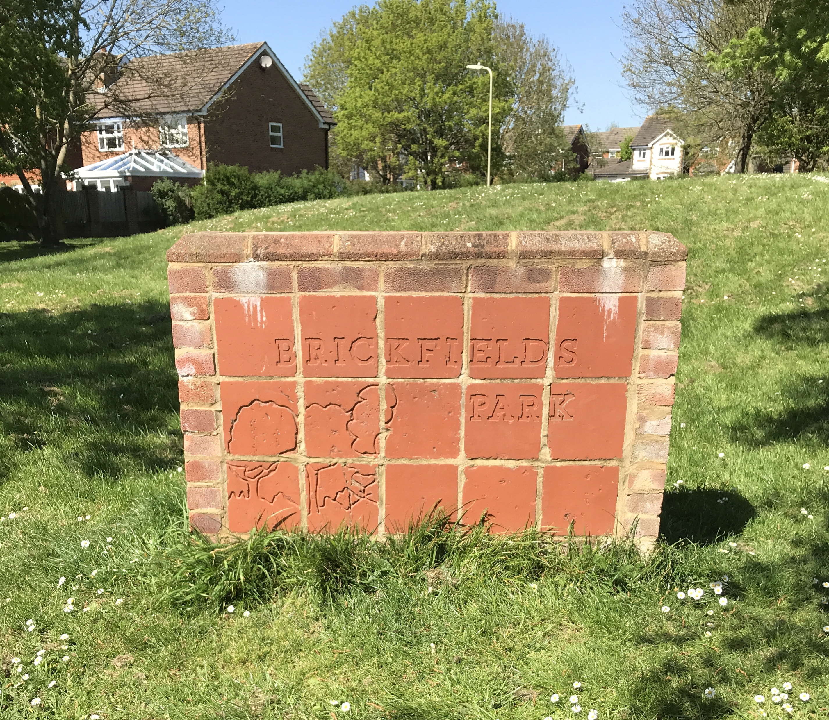 Brickfields Country Park in Aldershot in Hampshire in 2020